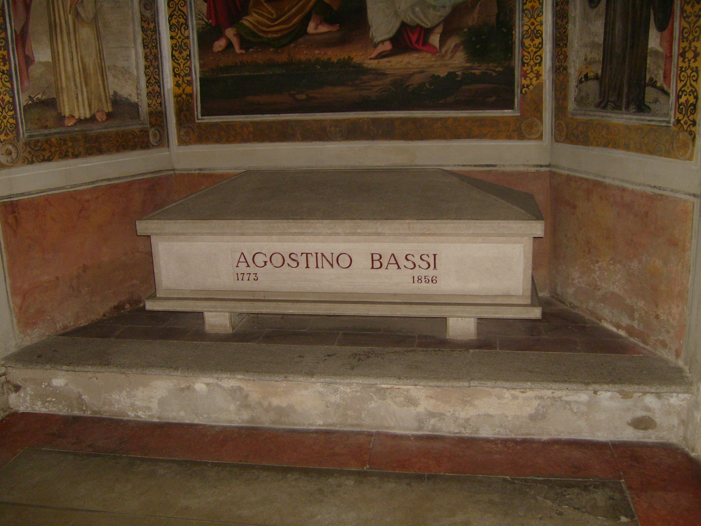 Agostino Bassi's tomb, Church of Saint Francis, Lodi, Italy